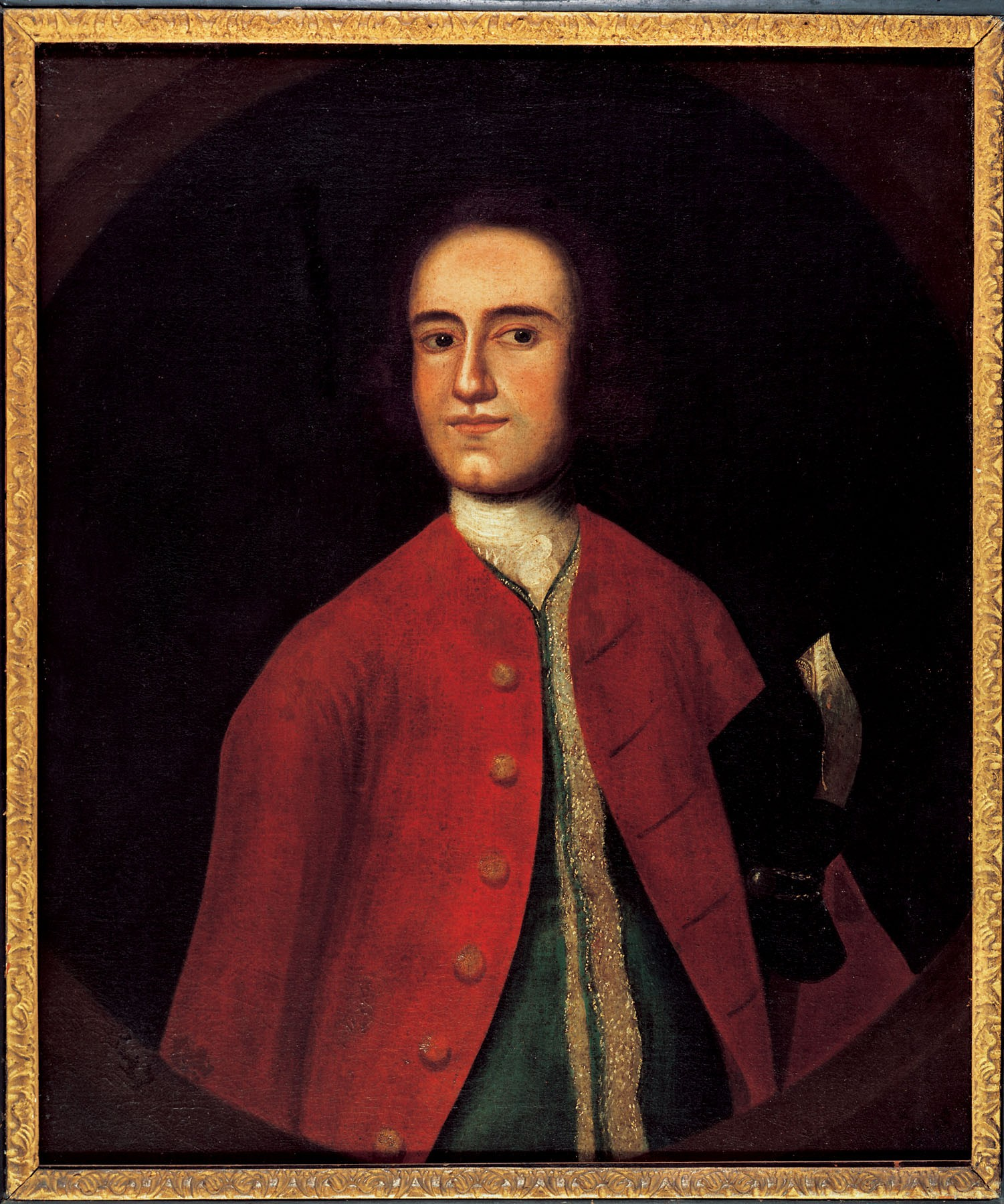 Portrait of Lawrence Washington, older half-brother of George Washington